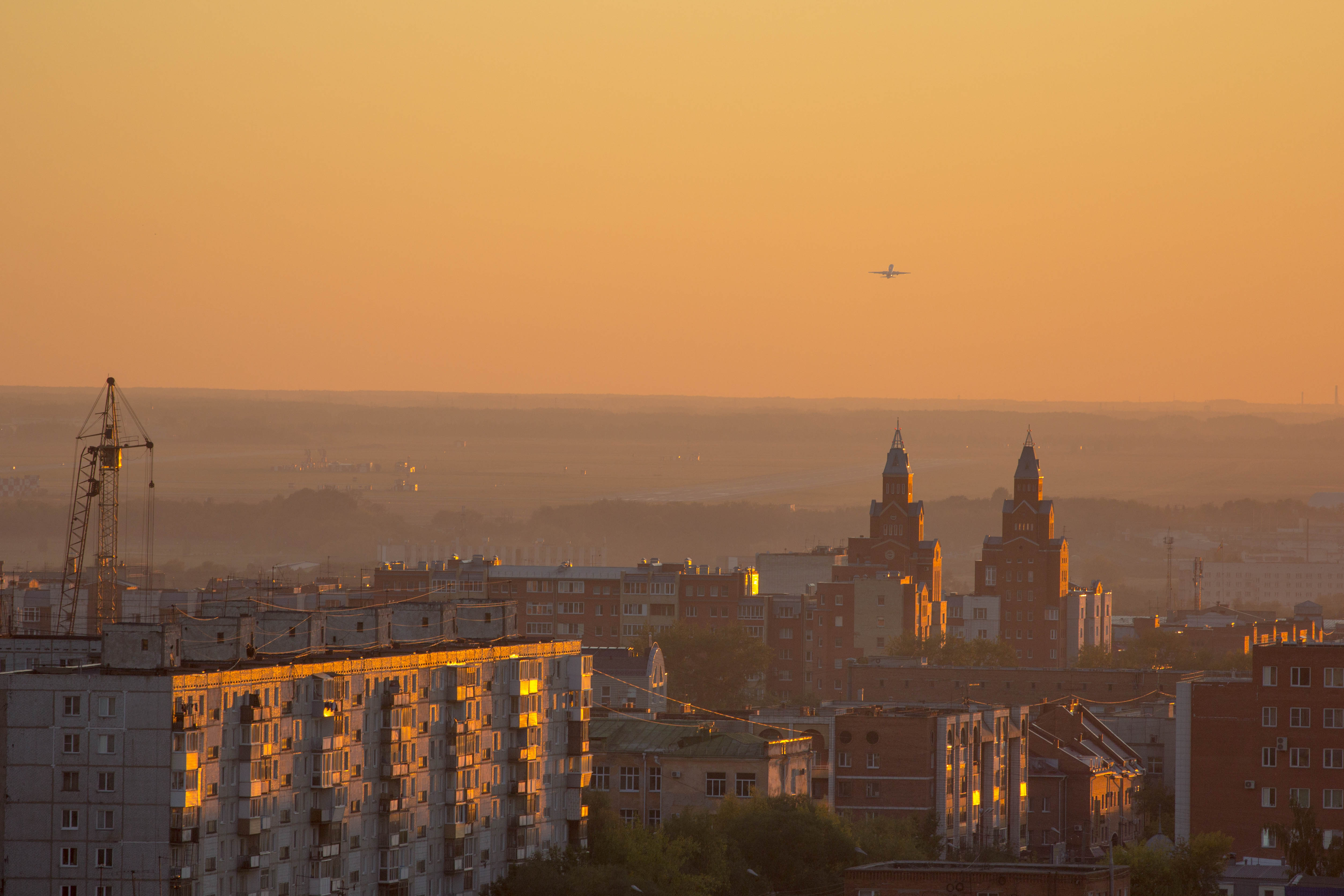 Saken's Towers at sunset light